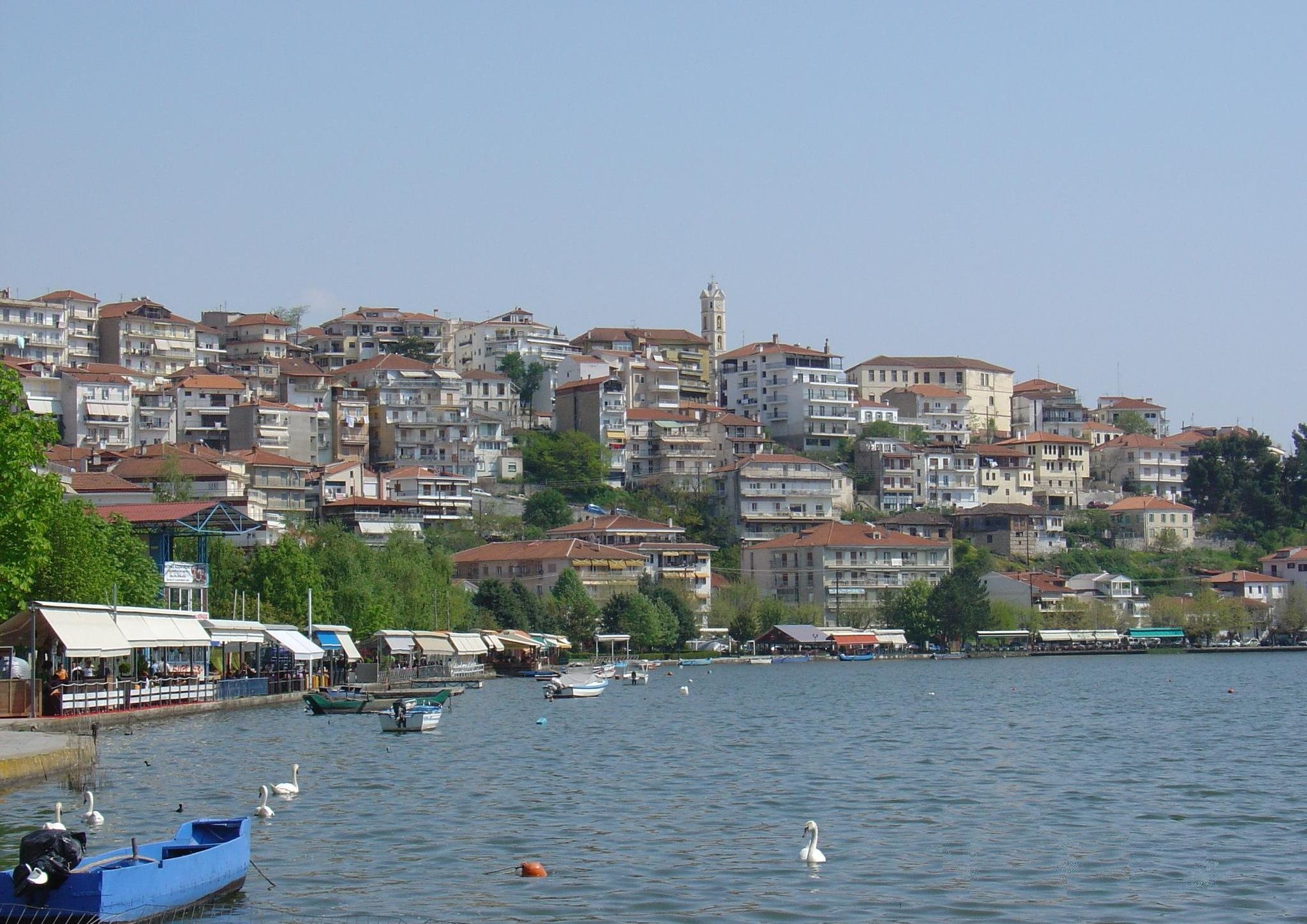 View of the city of Kastoria, Greece and of the lake Orestiada